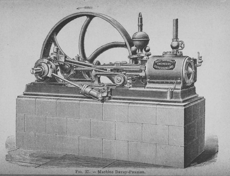 Copied from page 177 of the book shown. Converted to greyscale using GIMP. Davey-Paxman steam engine ca. 1890's